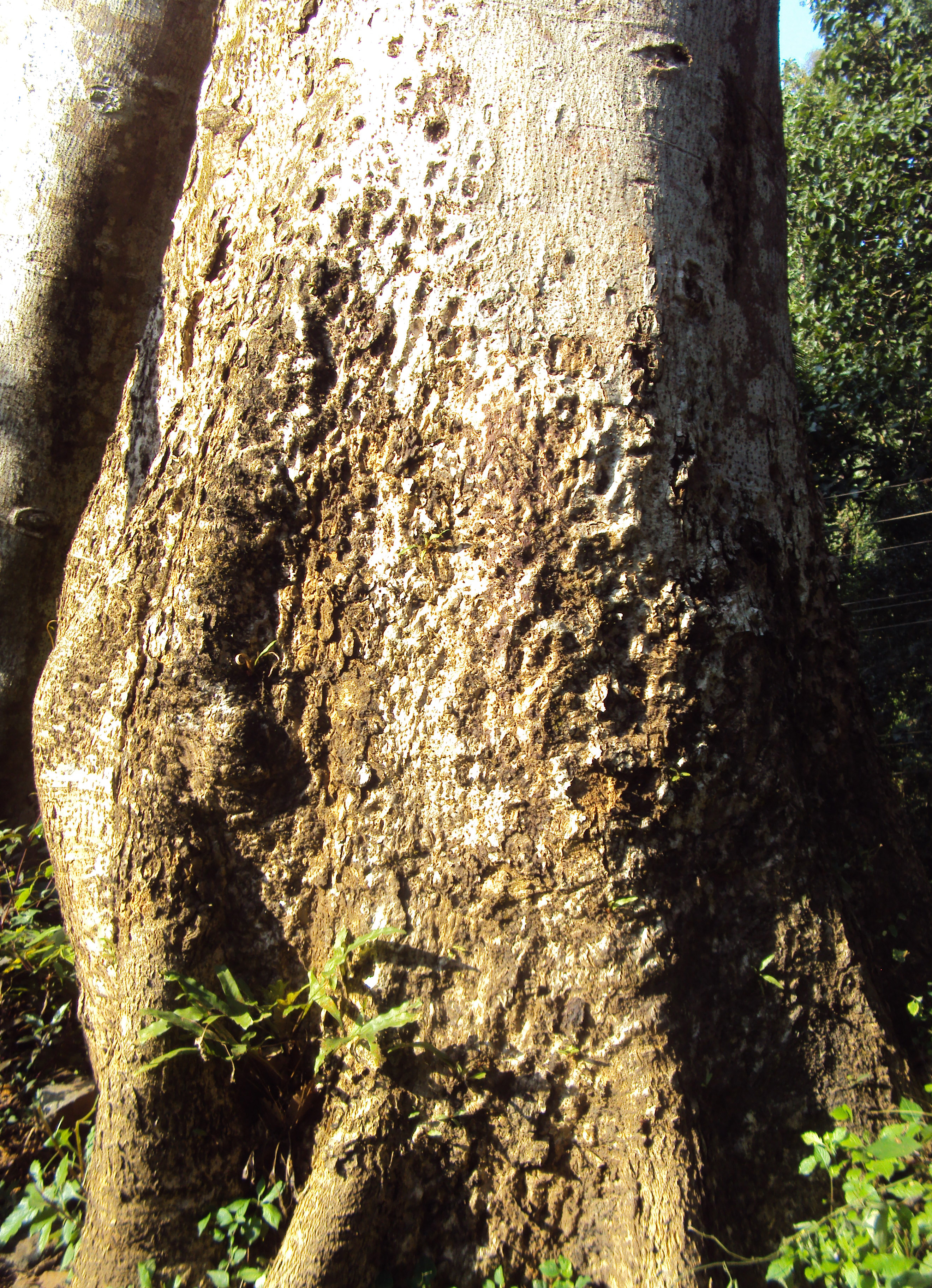 Tetrameles nudiflora bark